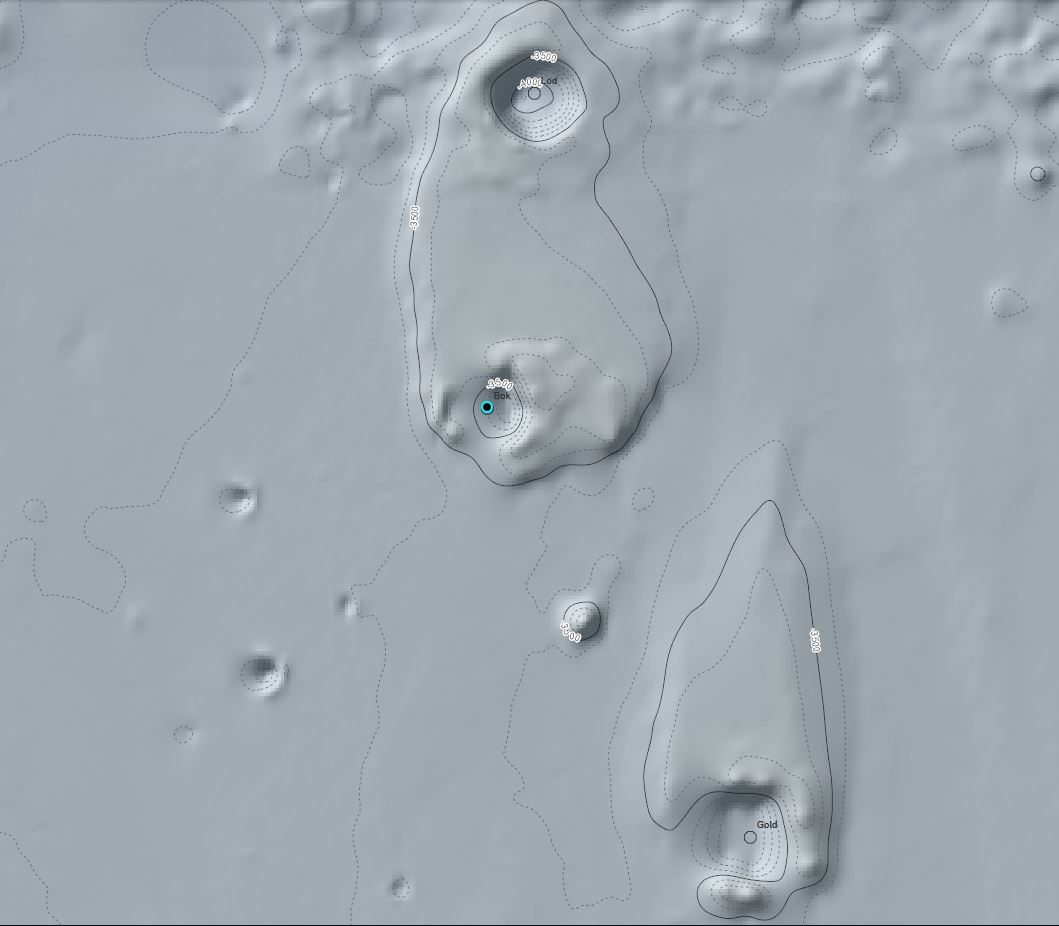 Bok crater is one of several craters in the Maja Valles that exhibit teardrop shaped water erosion from a large amount of water flowing past them.